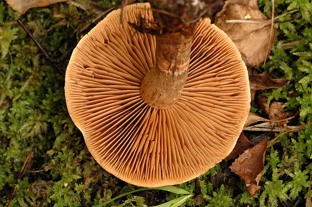 Cortinarius caninus from Commanster, Belgium. If you think this is a different taxon, please contact James Lindsey.